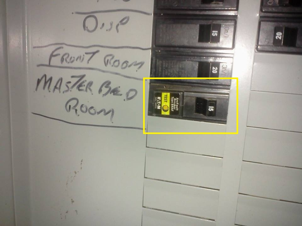 This AFCI (the circuit breaker with the yellow label) is an older generation AFCI circuit breaker. The current (as of 2013) devices are referred to as "combination type" and usually appear with a green label. Model: Eaton BR-Series BRAF rated at 15A